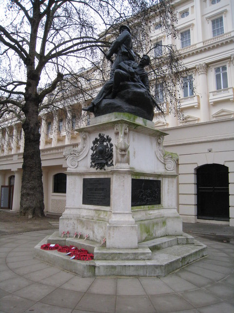 Royal Marines Memorial (1903), The Mall, London, by Adrian Jones and Sir Thomas Graham Jackson